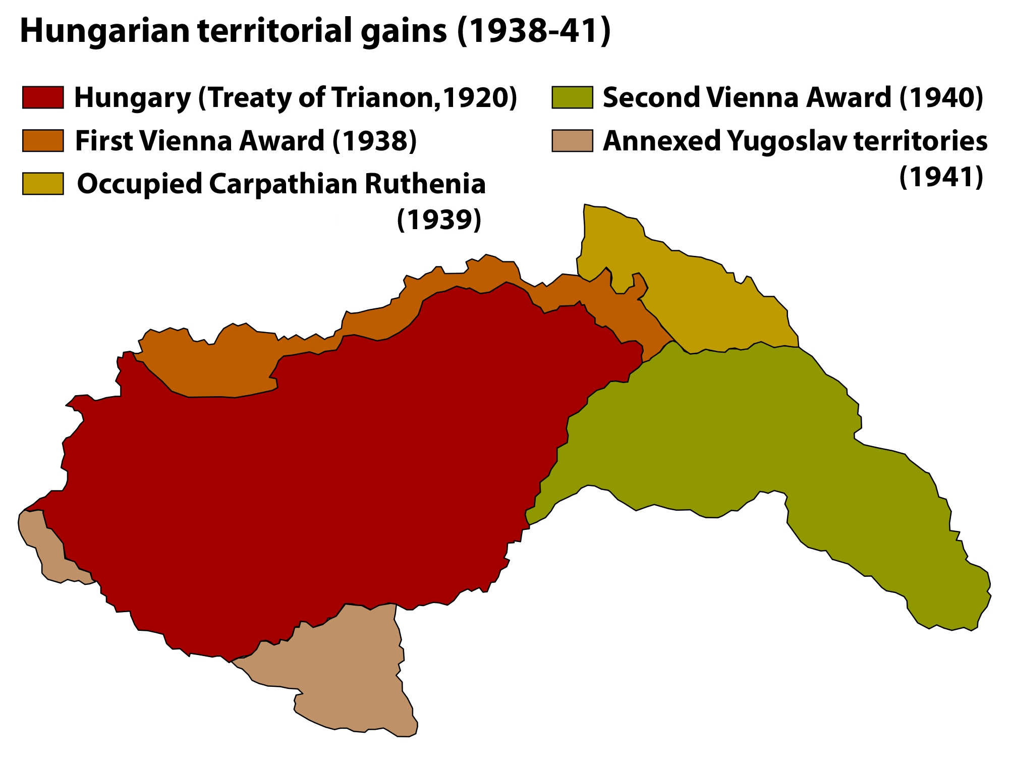 map shows territorial gains of Hungary between 1920-41